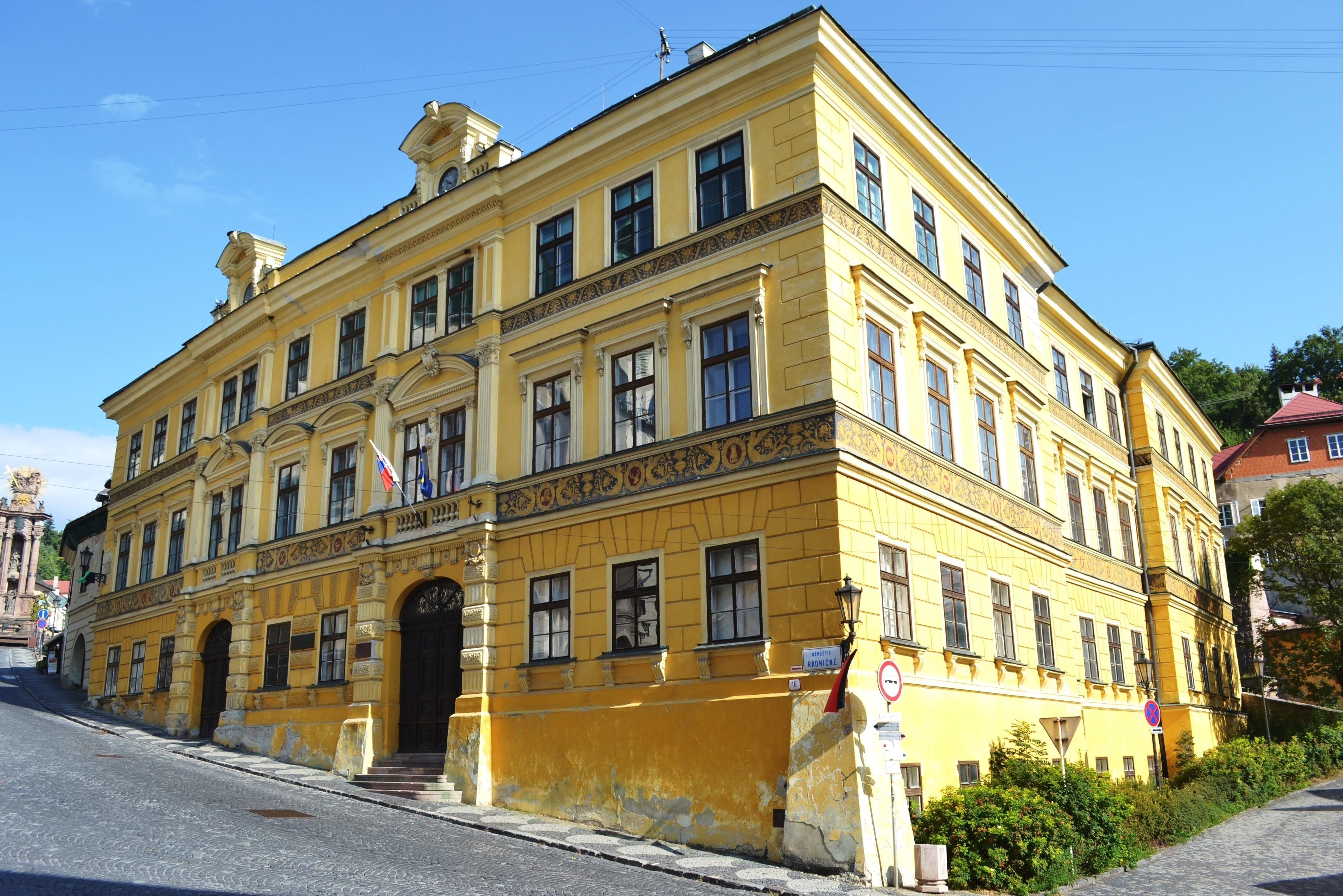 Memorial building, Town Hall Square 16Slovenčina: Pamätná budova, Radničné nám. 16